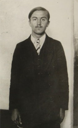 Photograph of Cvjetko Popović taken in 1914 during the Sarajevo trial (October 1914) by an unknown photographer. The dimensions are 9 x 15 cm. It is currently held at the Sarajevo History Museum, with the id. no. "ZFR - 83". The photograph circulated in newspapers since the trial.